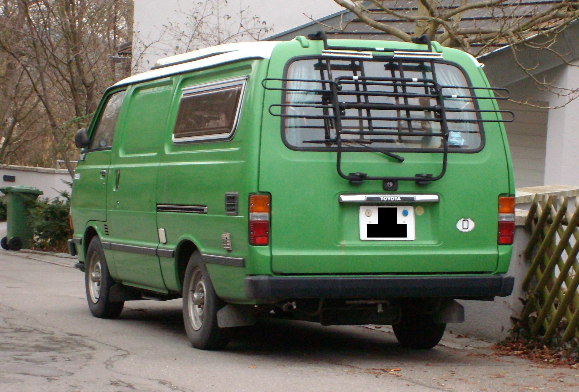 Toyota Hiace, second generation, camping version, with German licence plates (take a look at Toyota_Hiace_(second generation)_D_front.jpg)